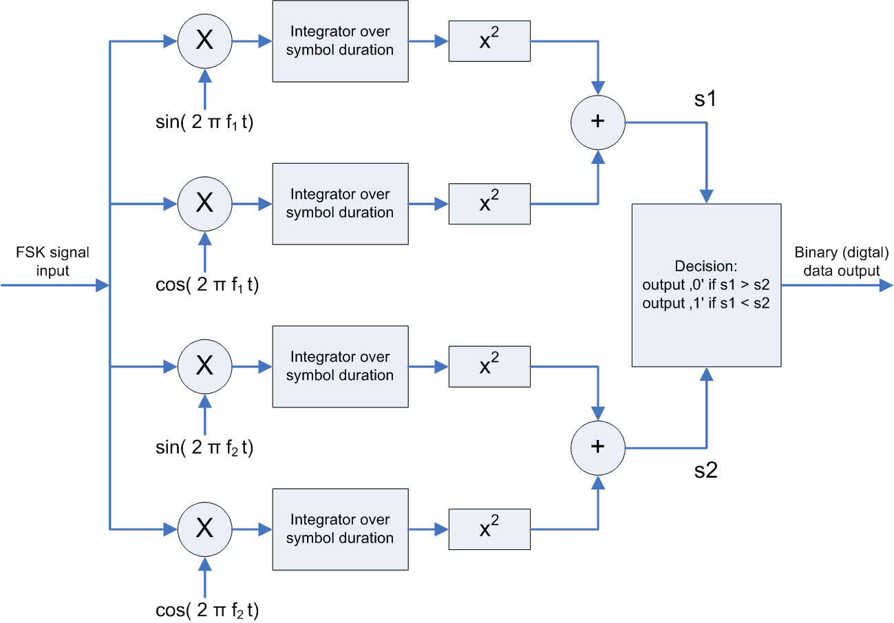 Non-coherent demodulator for binary FSK signals - nicht kohärenter Demodulator für binäre FSK Signale.